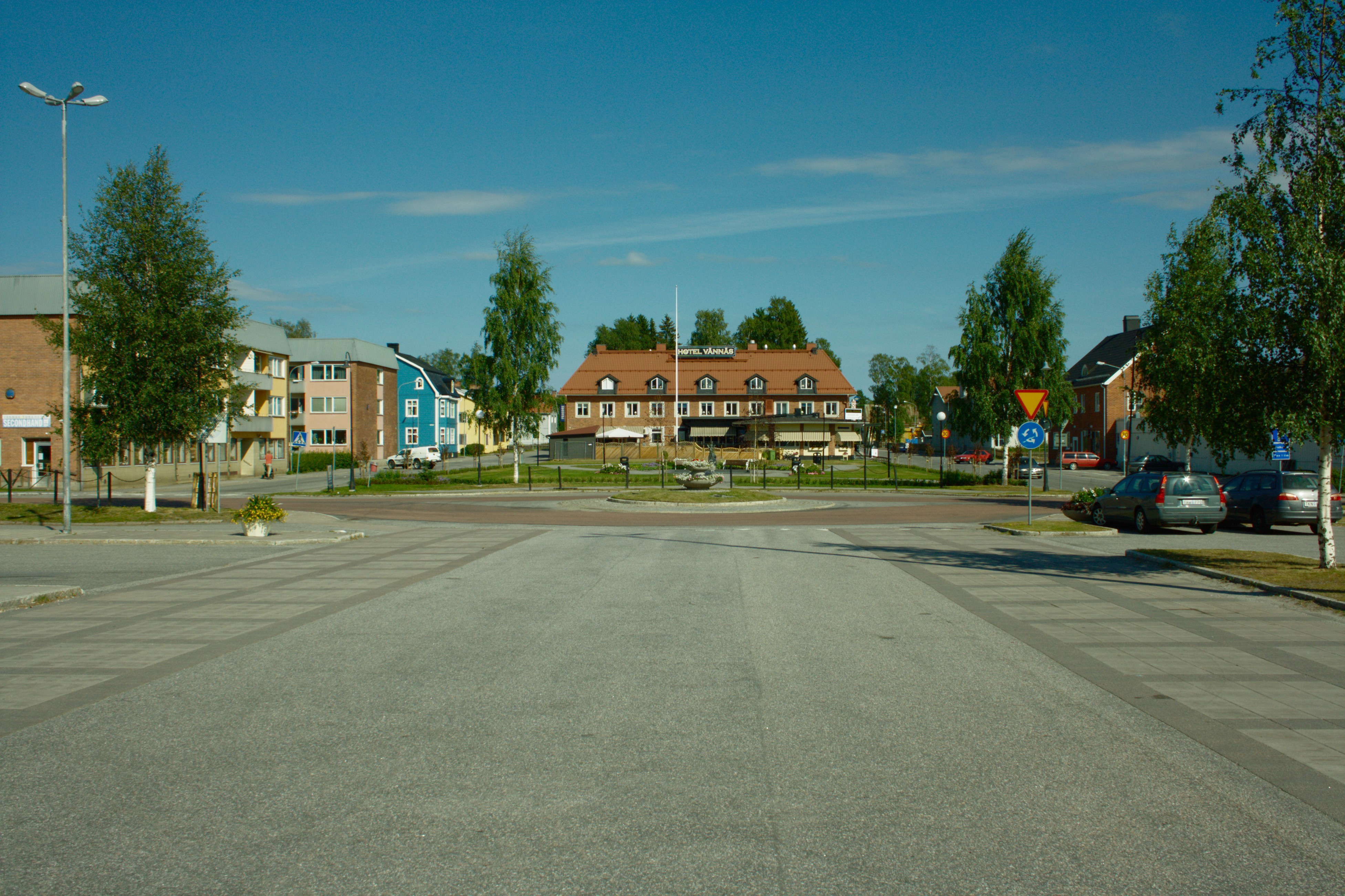 Central Vännäs with Oskar Park and Hotel Vännäs in the background